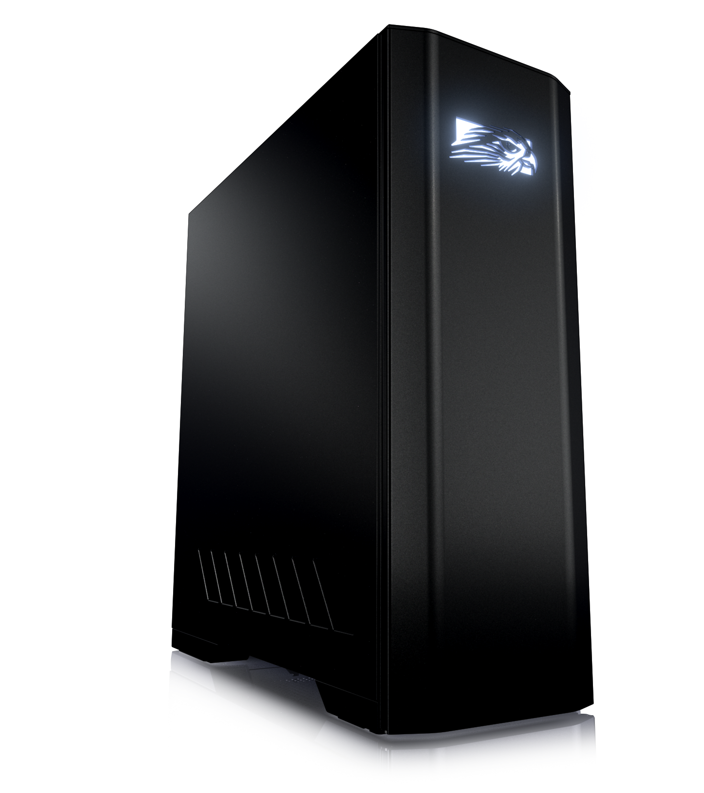 This Mach V chassis is representative of models produced in the late 2010's.